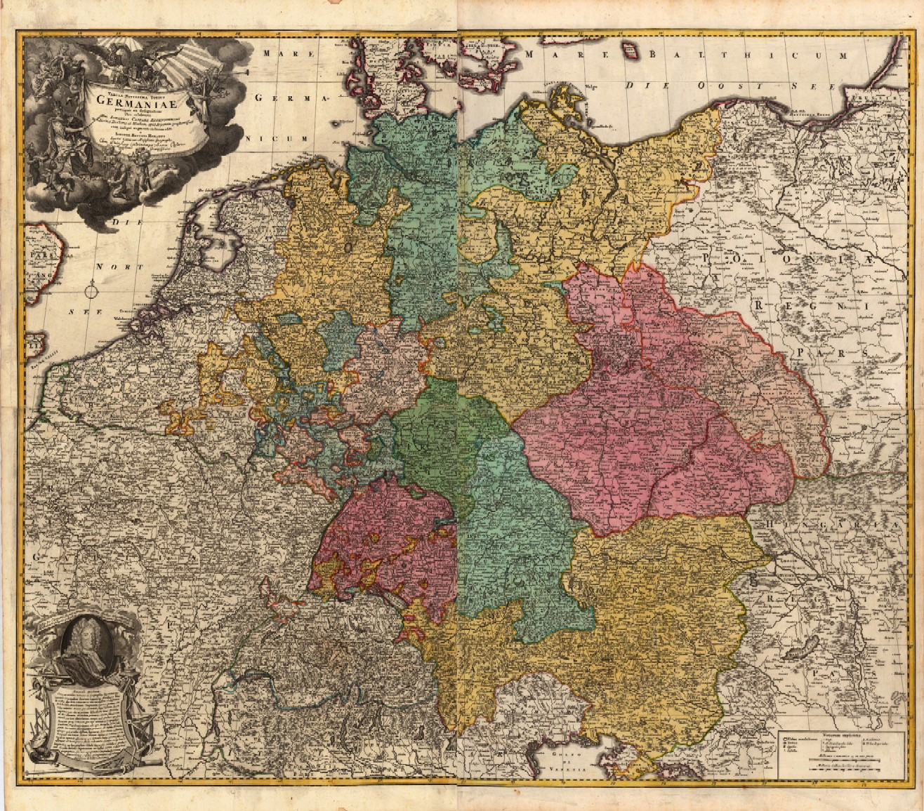 The Holy Roman Empire divided in its 10 Circles. Map of Johann Baptist Homann dedicated to mathematician Johann Kaspar Eisenschmidt (portrait) whose geodesic work benefited cartography.